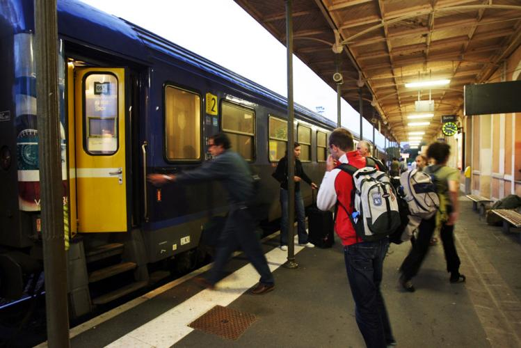 Train Corail Lunéa en gare d'Albi-Ville voie A.